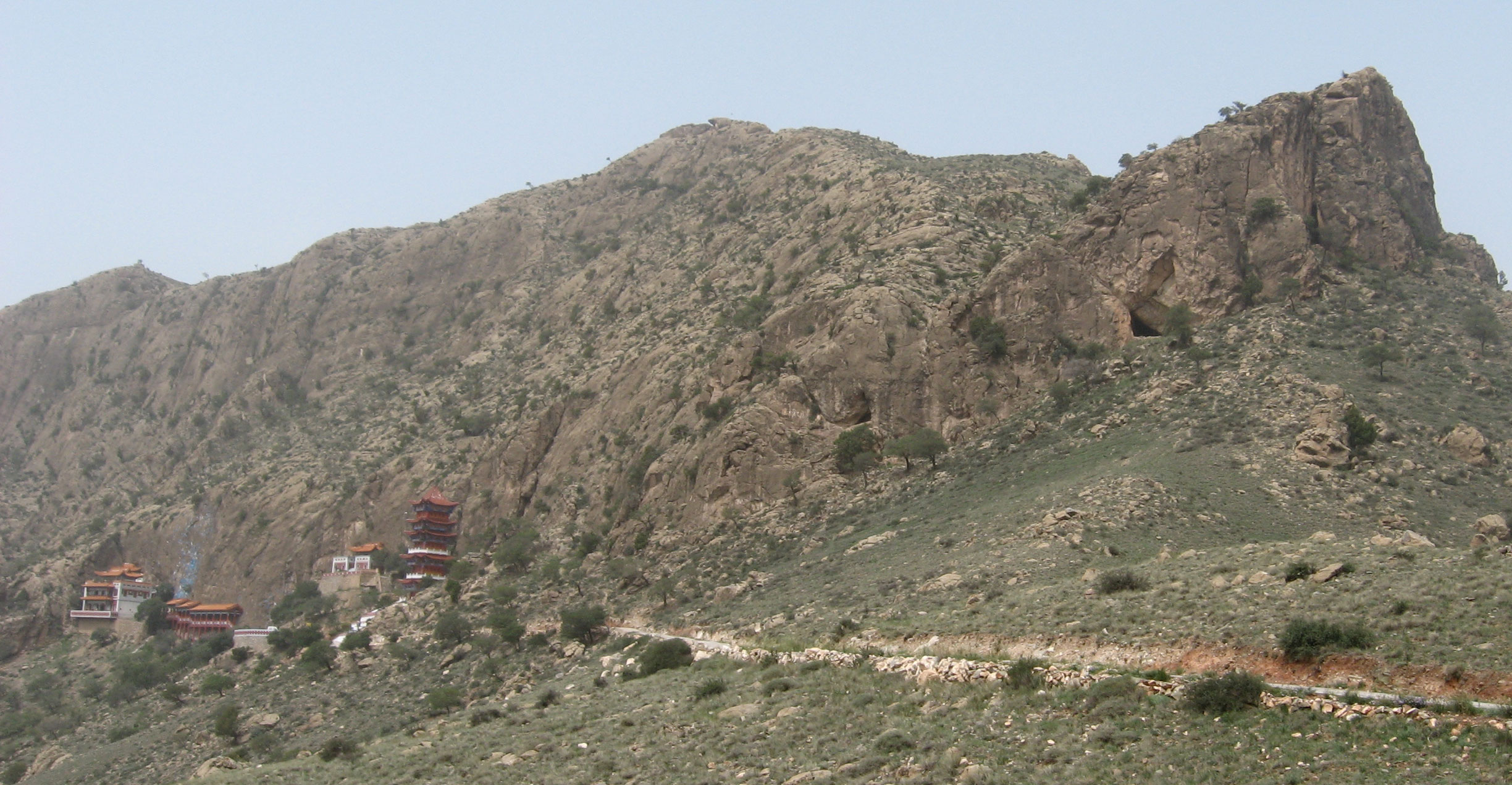 Alshaa Baruun Hiid (Alshaa western monastery), a monastery in Alshaa aimag, Inner Mongolia, China. This is the upper part. The blue things on the rock face to the left are hadags.